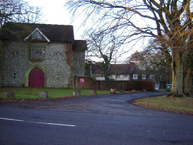 Alton Abbey. Alton Abbey is a Benedictine Monastery in the Church of England. Its web site is